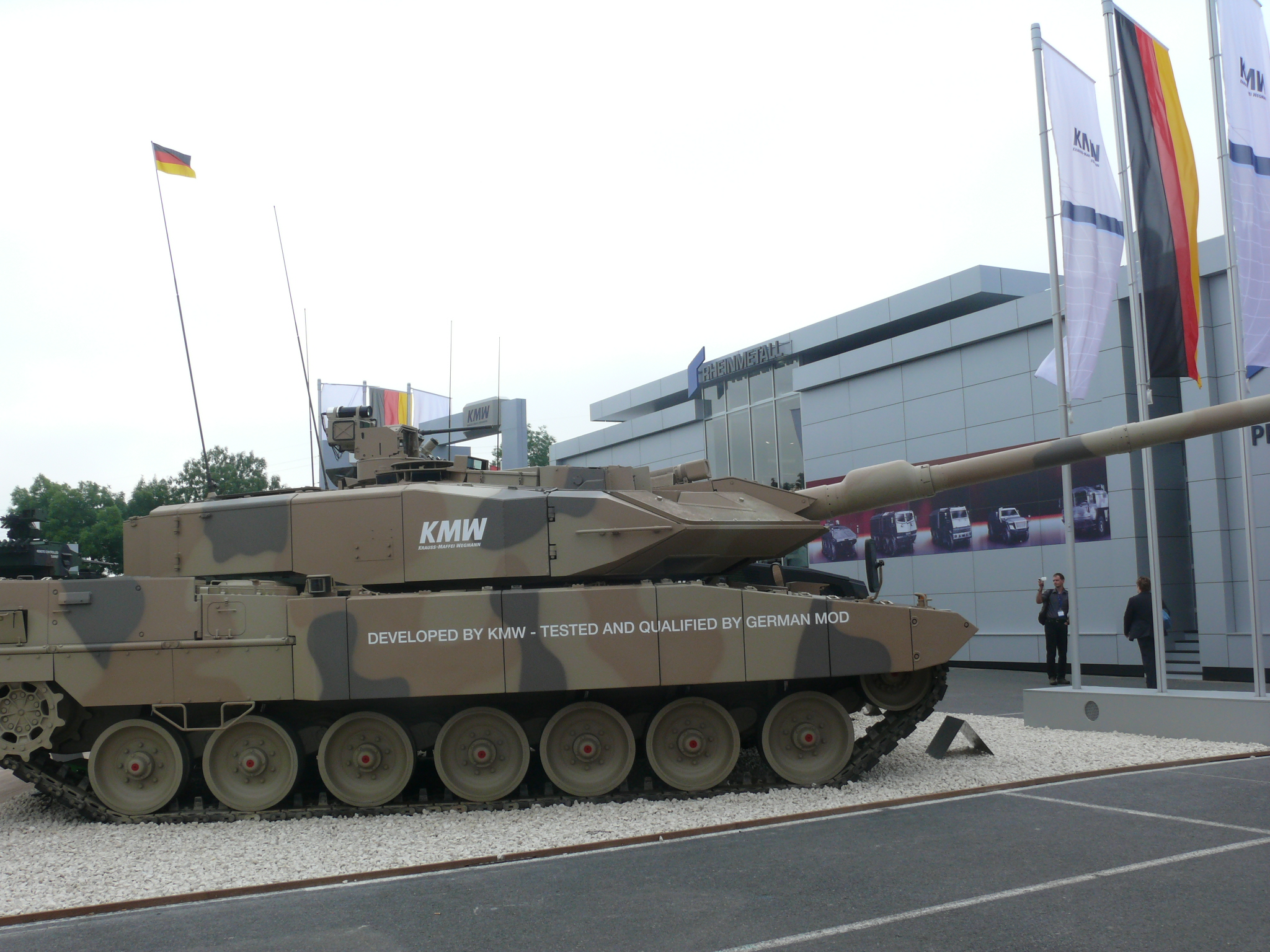 Leopard 2 A7